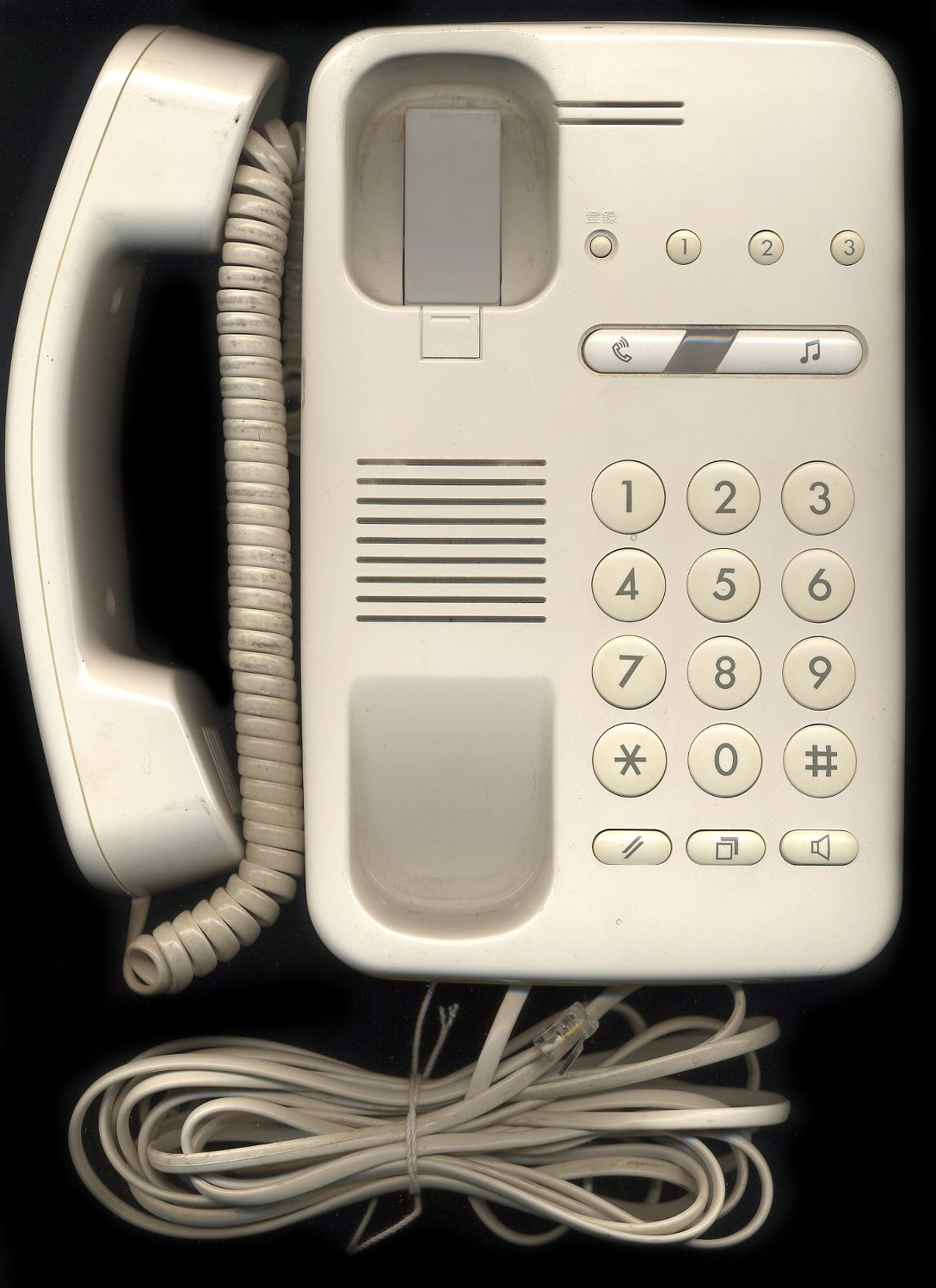 telephone